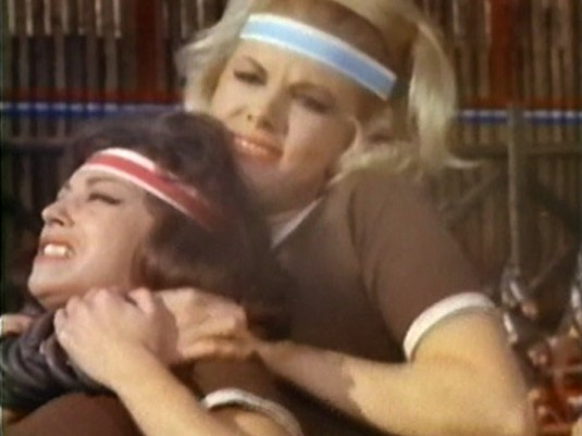 Movie still from the 1963 movie "Thor and the Amazon Women." Scene was taken from and is believed to be in the public domain.